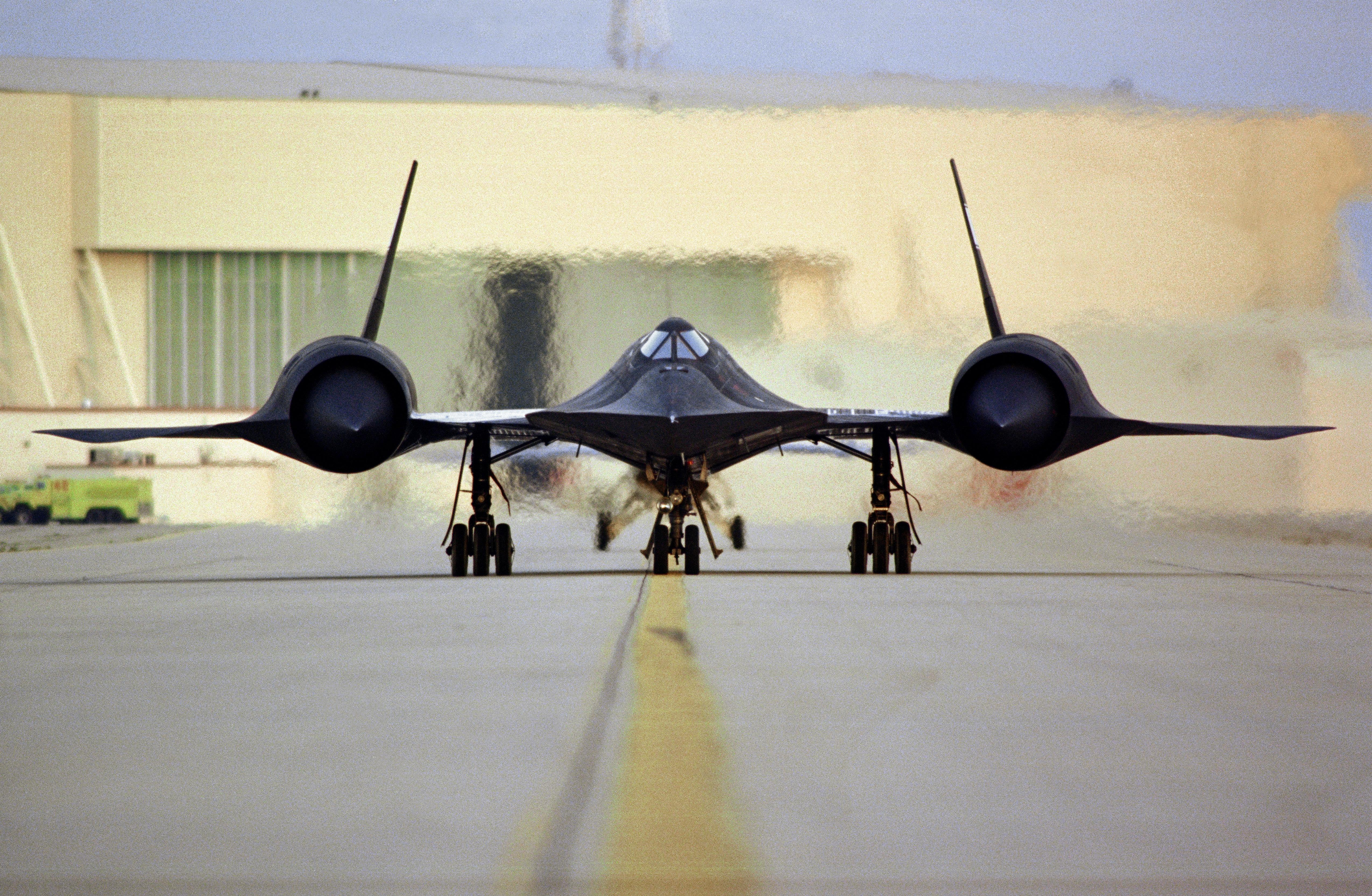 SR-71 taxi on ramp with engines powered up